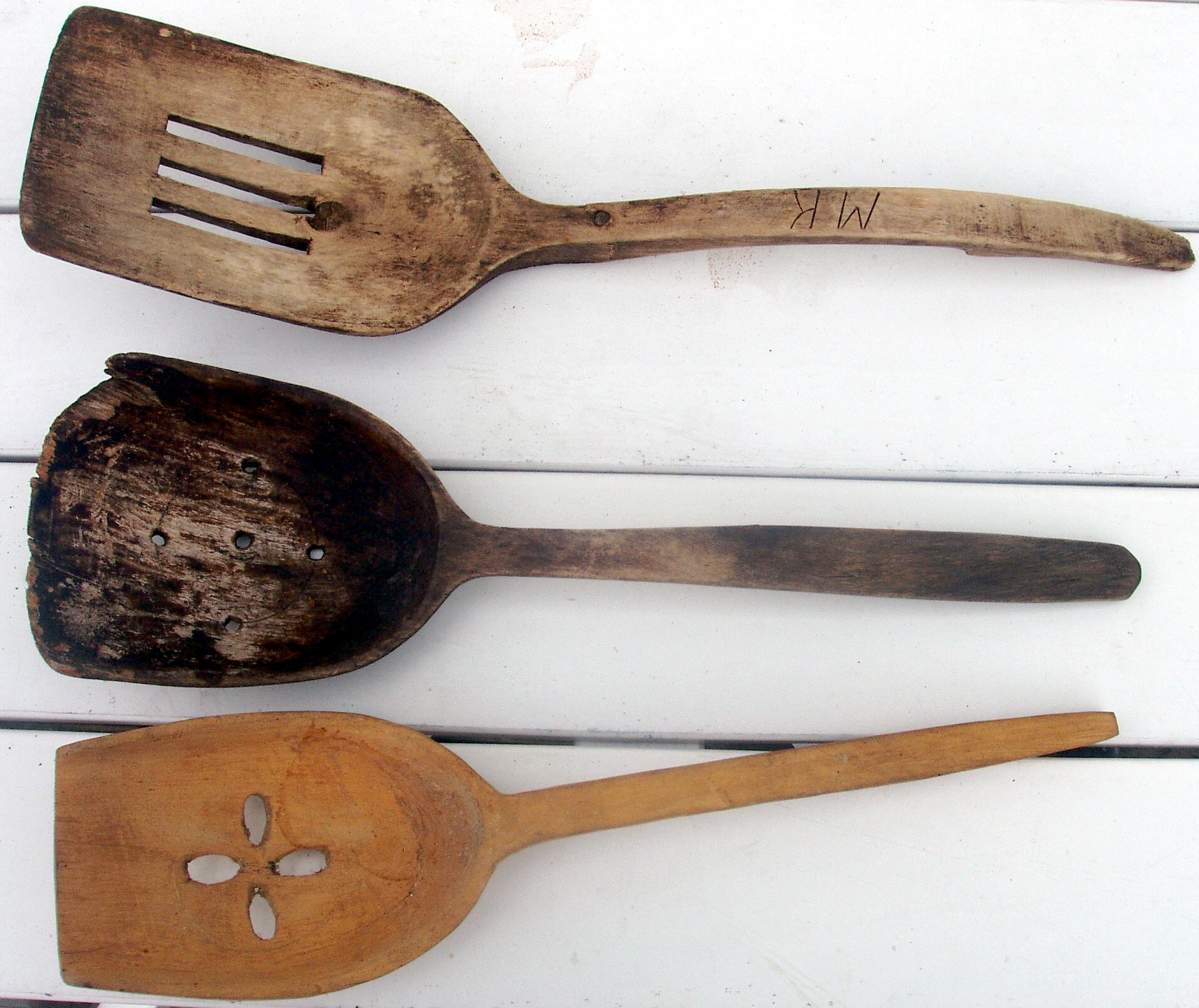 Wooden spoon for taking fish out of the hot water